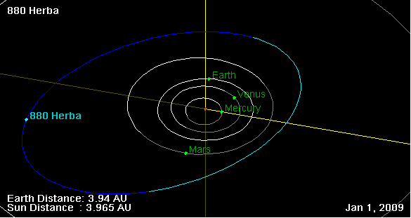 880 Herba orbit, and his position on 01 Jan 2009 (NASA Orbit Viewer applet)